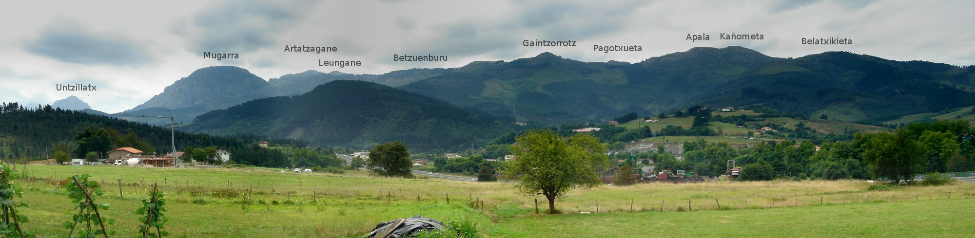 Aramotz mountain range (Biscay, Basque Country, Spain)